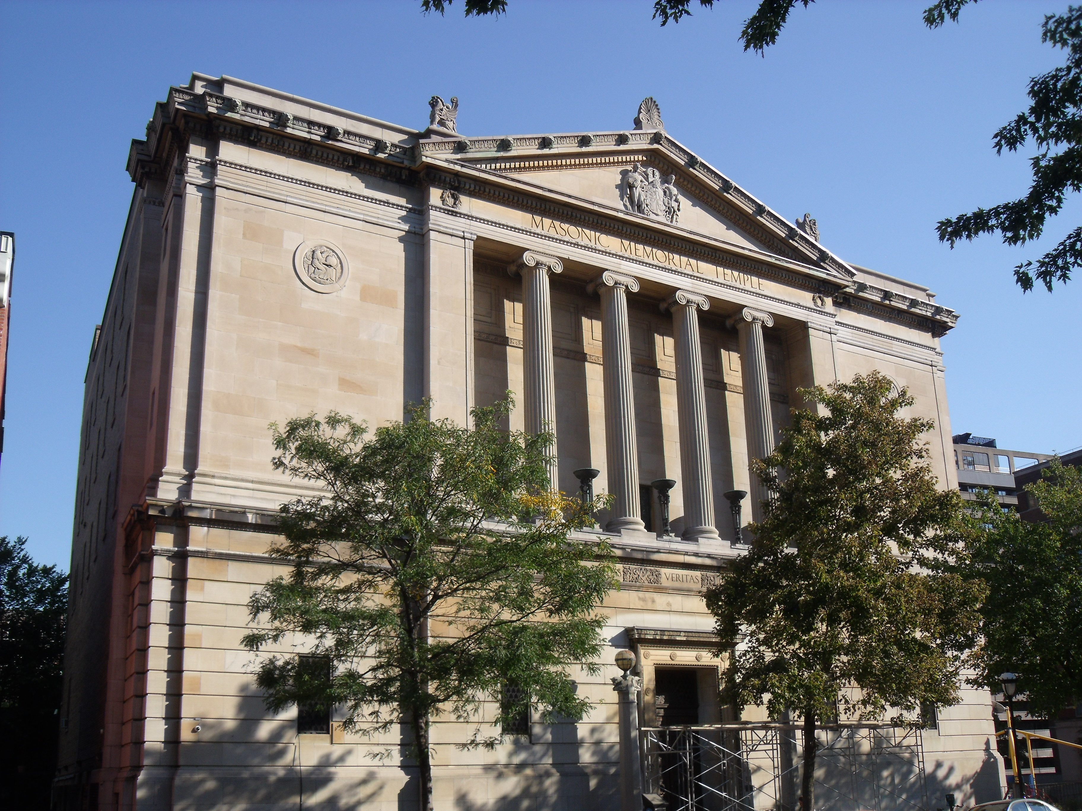 2295 Saint-Marc Street and 1805 Sherbrooke Street West, Montreal, Quebec, H3H, Canada